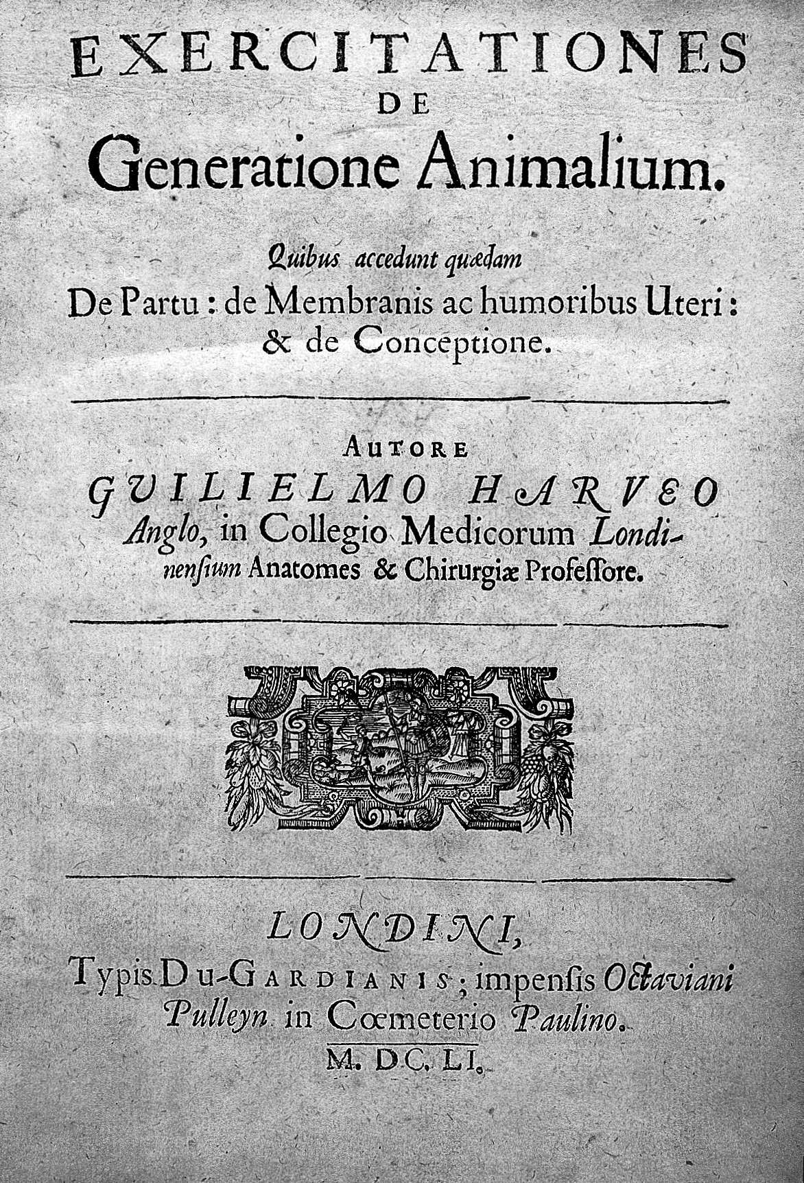 HARVEY, William {1578-1657} W. Harvey, Exercitationes de generatione animalium. Quibus accedunt quaedam de partu: de membranis ac humoribus uteri: & de conceptione / ( Authore Guilielmo Harveo ) Amstelædami : Apud I. Ravesteynium, 1651 Title page Rare Books Keywords: guilielmo harveo; harvey, william {1578-1657}; Embryology; epigenesis; Reproduction